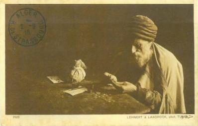 Postcard of Tunisia, money changer. Mailed from Algiers.